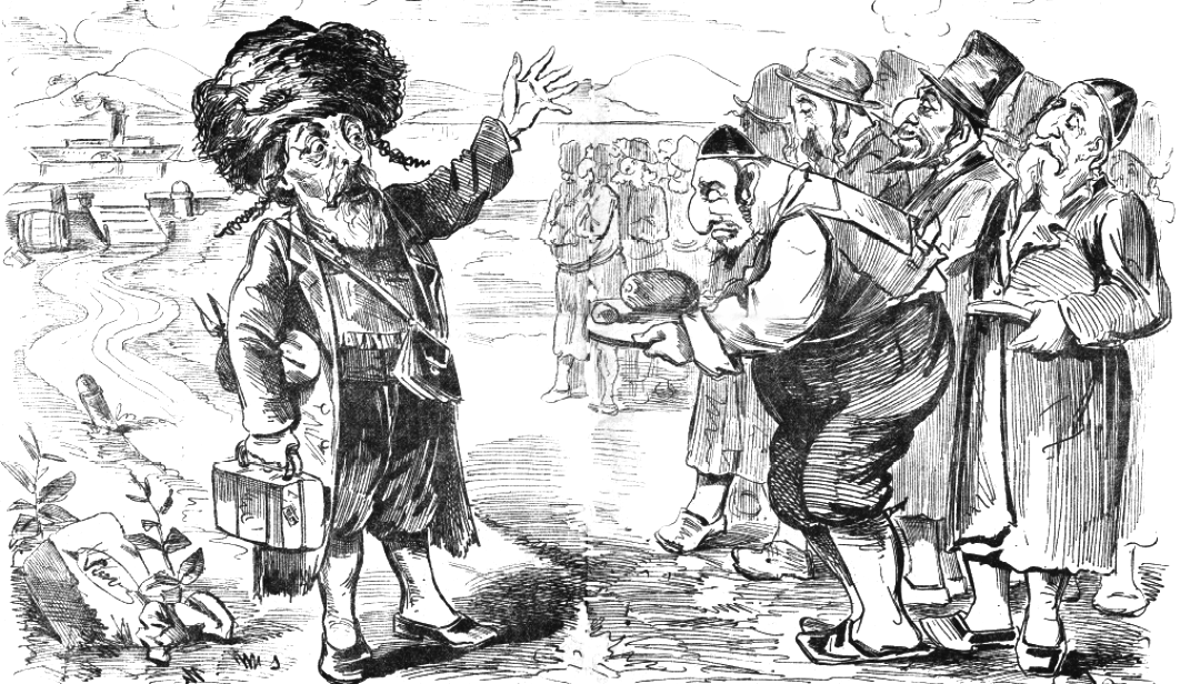 Antisemitic cartoon in the Romanian satirical paper Bobârnacul, titled Intimpinarea dlui C. A. Roseti la întoarcerea'i în patrie ("A Welcoming for Mr C. A. Rosetti upon his return to the motherland"). The non-Jewish Rosetti is shown dressed in typical Jewish clothes and with payot sidecurls; Jews are shown bowing before him. The reference is to the Berlin Congress, which had pressured Romania into making concessions to its segregated Jewish nationals; Rosetti, who now advocated limited emancipation, is depicted as a sellout.